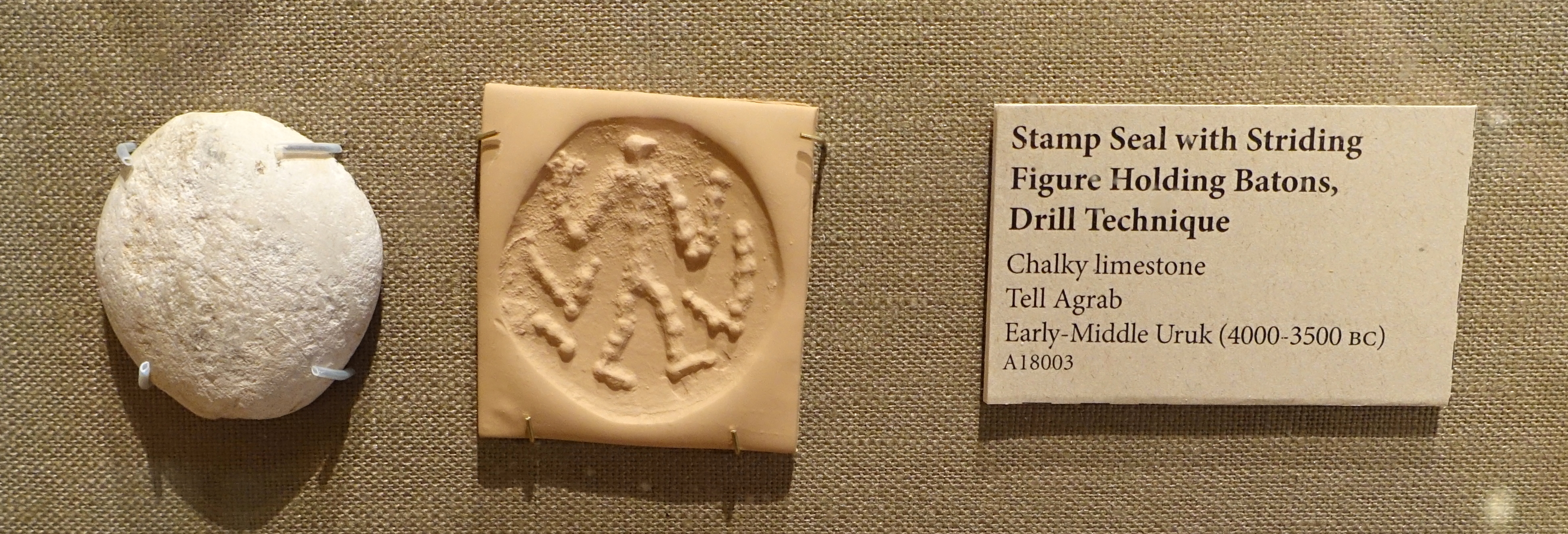 Exhibit in the Oriental Institute Museum, University of Chicago, Chicago, Illinois, USA. This work is old enough so that it is in the public domain.